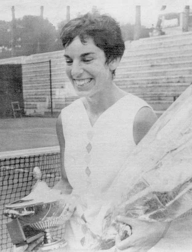 LG45 1969 Wire Photo JULIE HELDMAN Italian Open Womens Tennis Champion Athlete